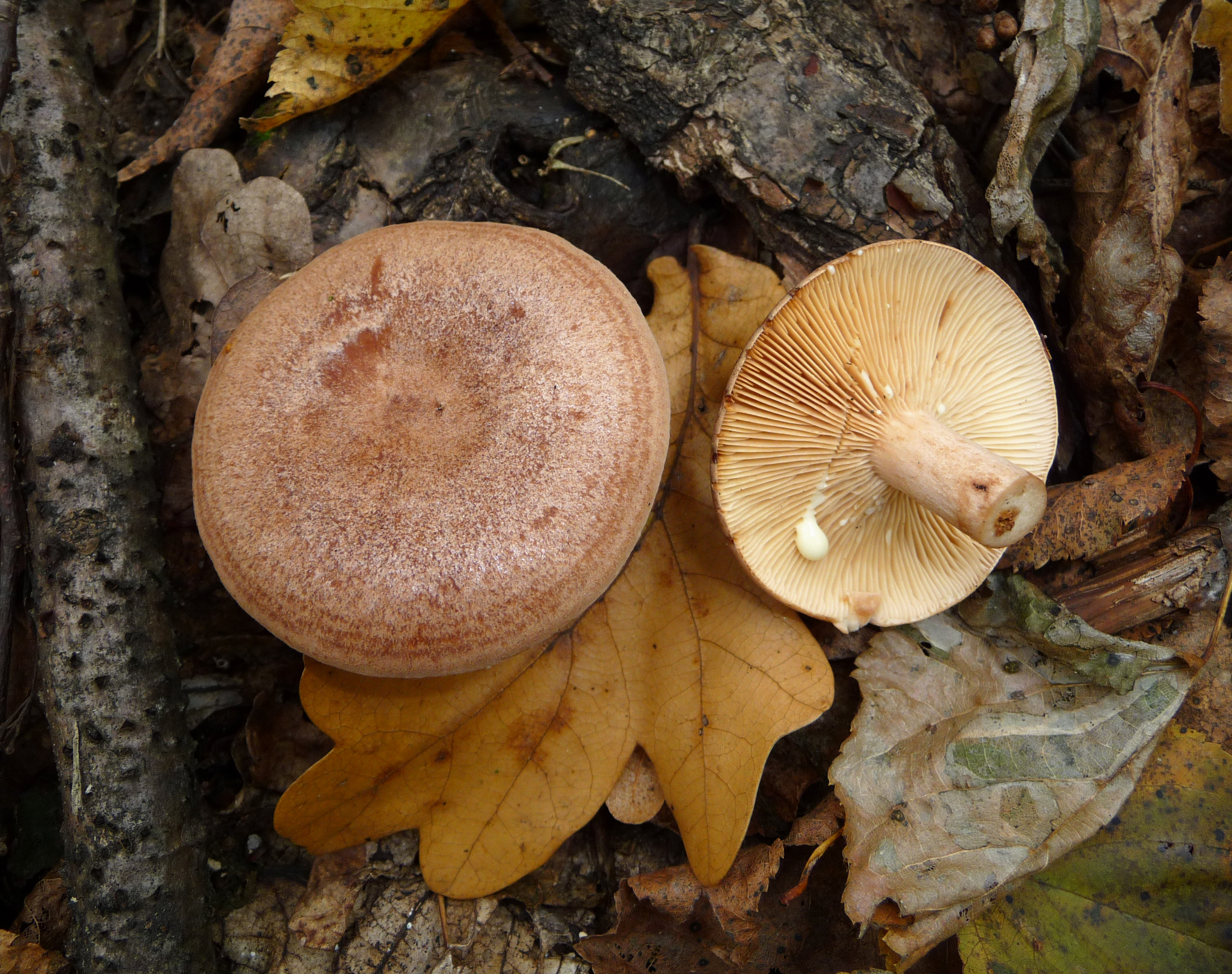 Oak Milk Cap (Lactarius quietus). Ukraine.